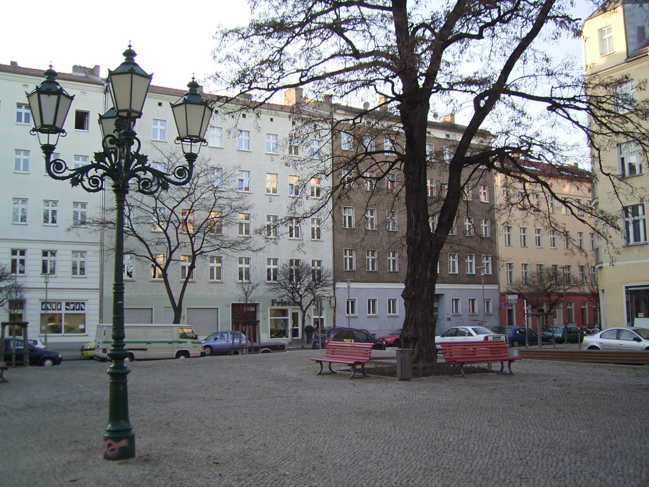 The Victoriastadt quarter around the Tuchollaplatz in Berlin-Lichtenberg